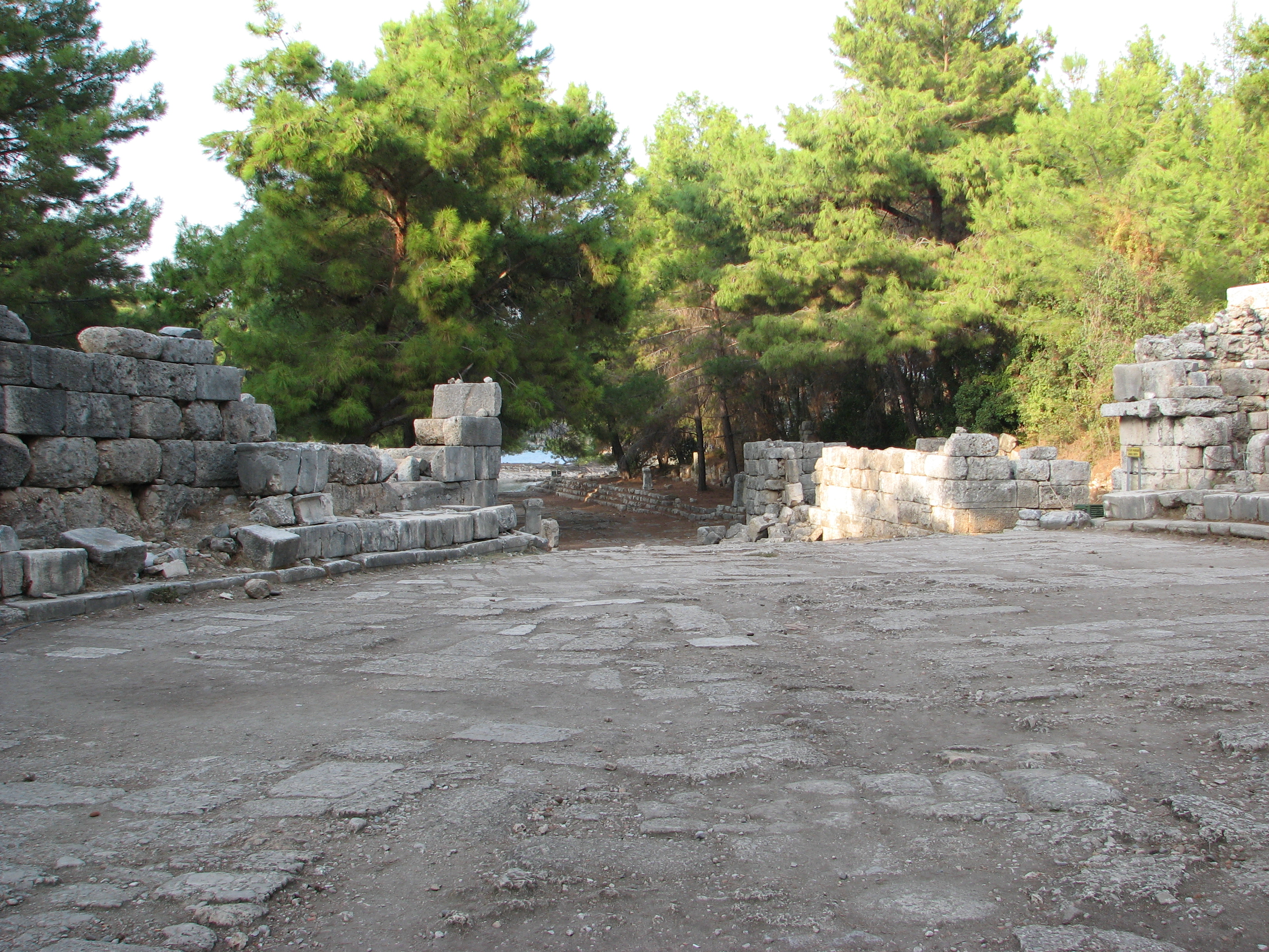 Phaselis, main road